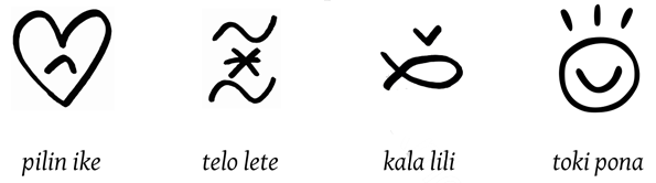 Examples of Toki Pona sitelen pona writing system with the words in Latin script below